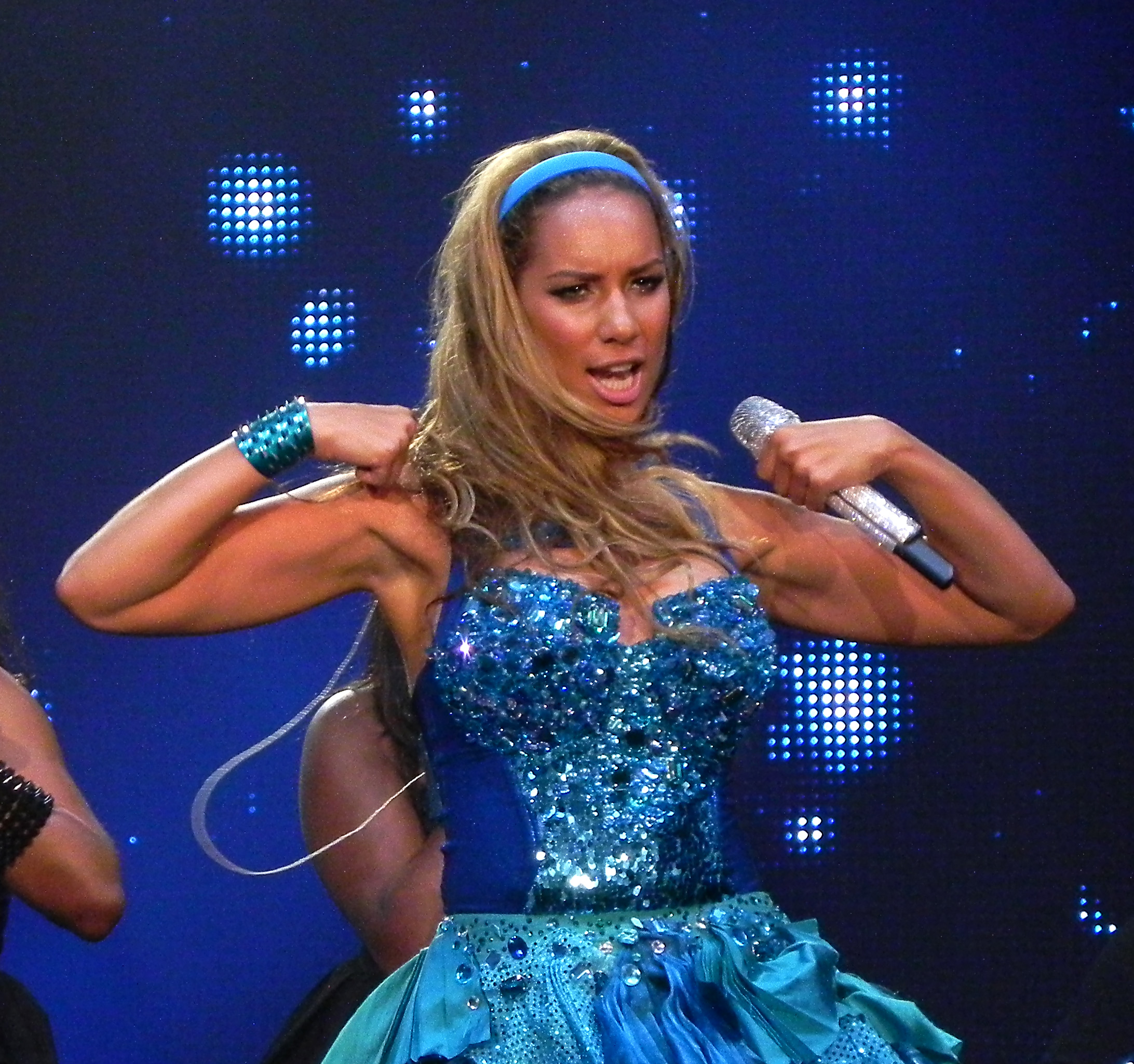 Leona Lewis durante a sua turnê "The Labyrinth" (em português: O Labirinto)